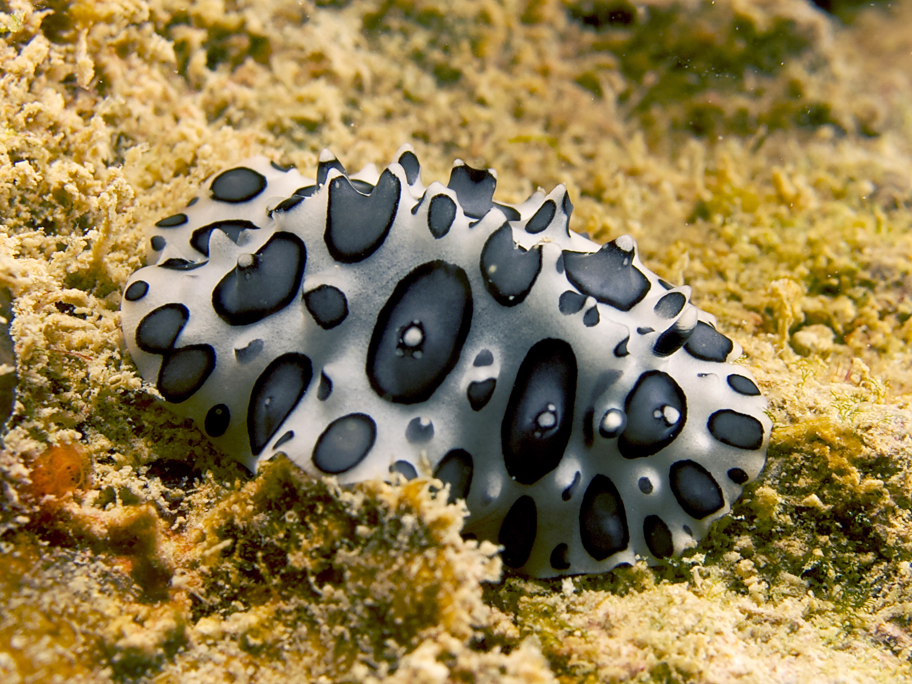 Photo of Ceratophyllidia papilligera (Bergh, 1890) from North Haiti. Synonym: Phyllidiopsis papilligera (Black-spotted Nudibranch).